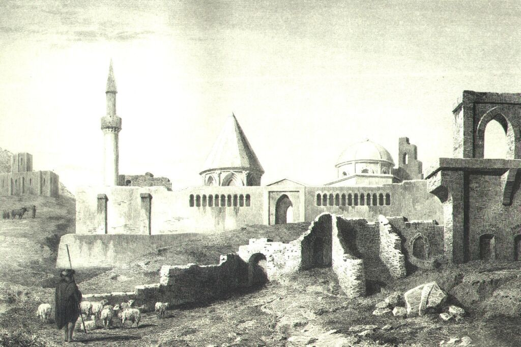 Alaeddin Mosque, Konya, Turkey in a 1849 engraving